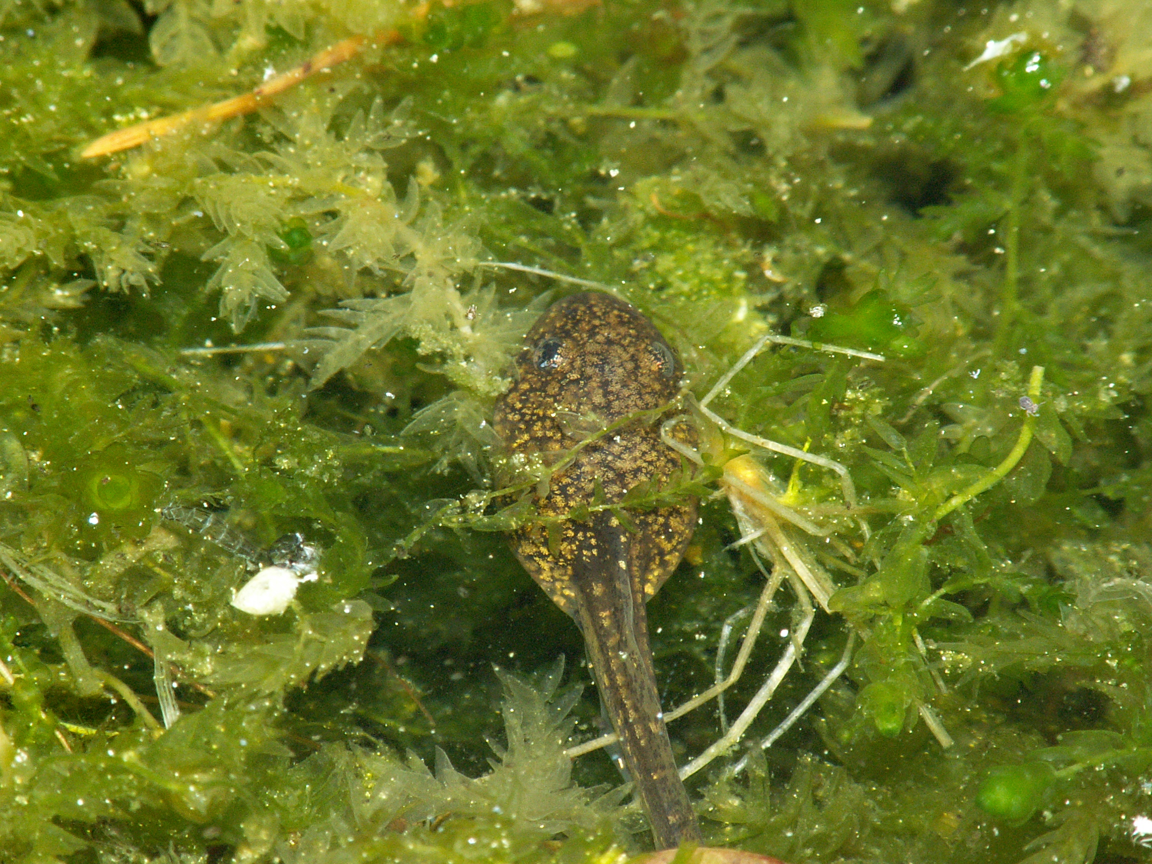 Larva of Rana temporaria Natural habitat Wolfheze The Netherlands